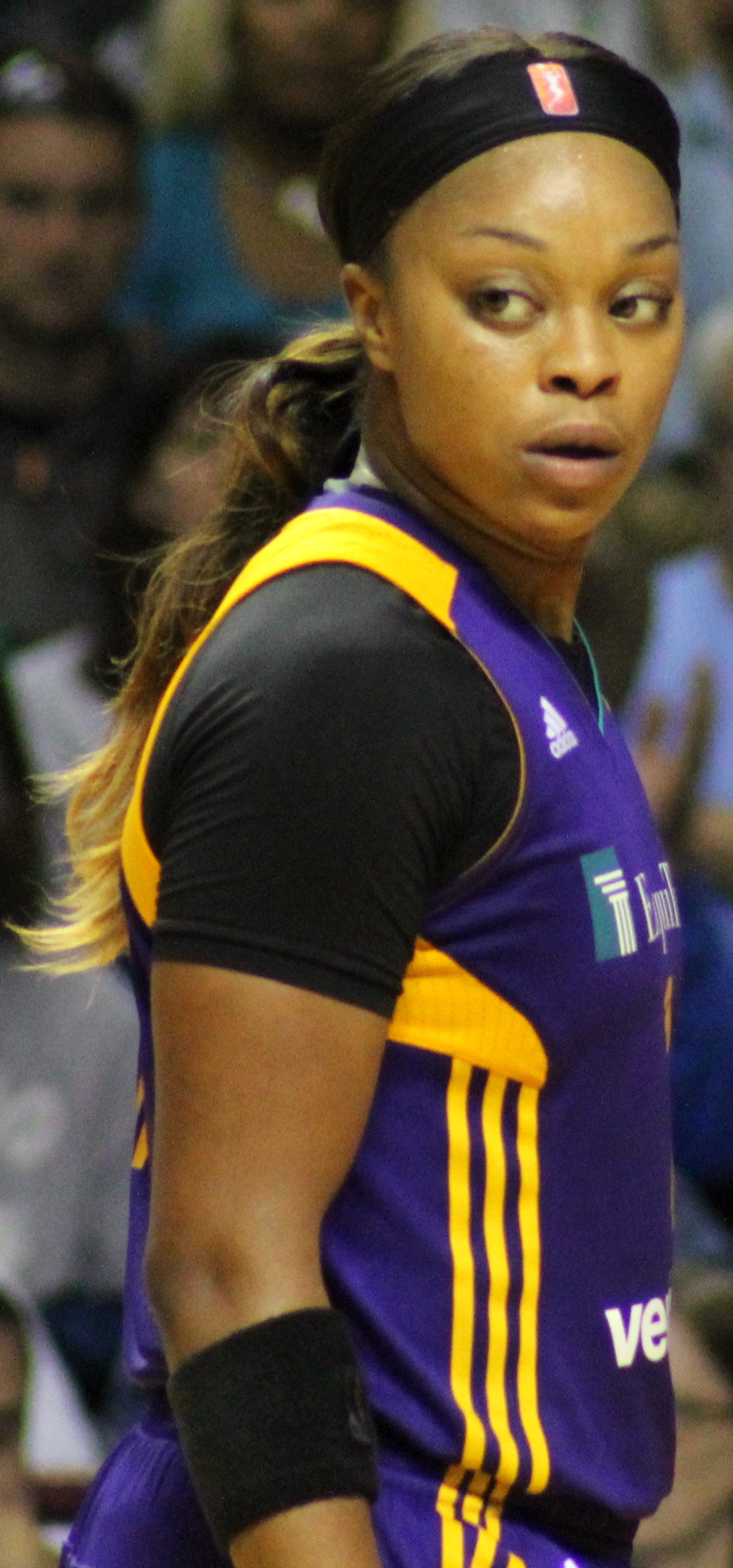 Odyssey Sims of the Los Angeles Sparks during the WNBA Finals in 2017